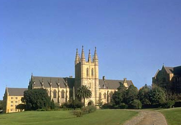 St John's College, University of Syndey, as seen from Parramatta Road